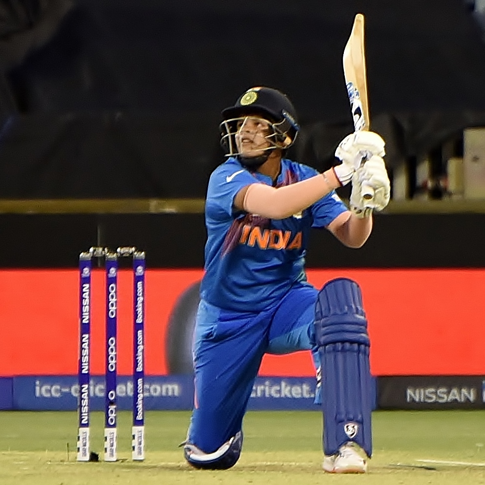 Shafali Verma hits a six in the course of her player-of-the-match-winning innings for India against Bangladesh during their 2020 ICC Women's T20 World Cup match at the WACA Ground in Perth, Australia